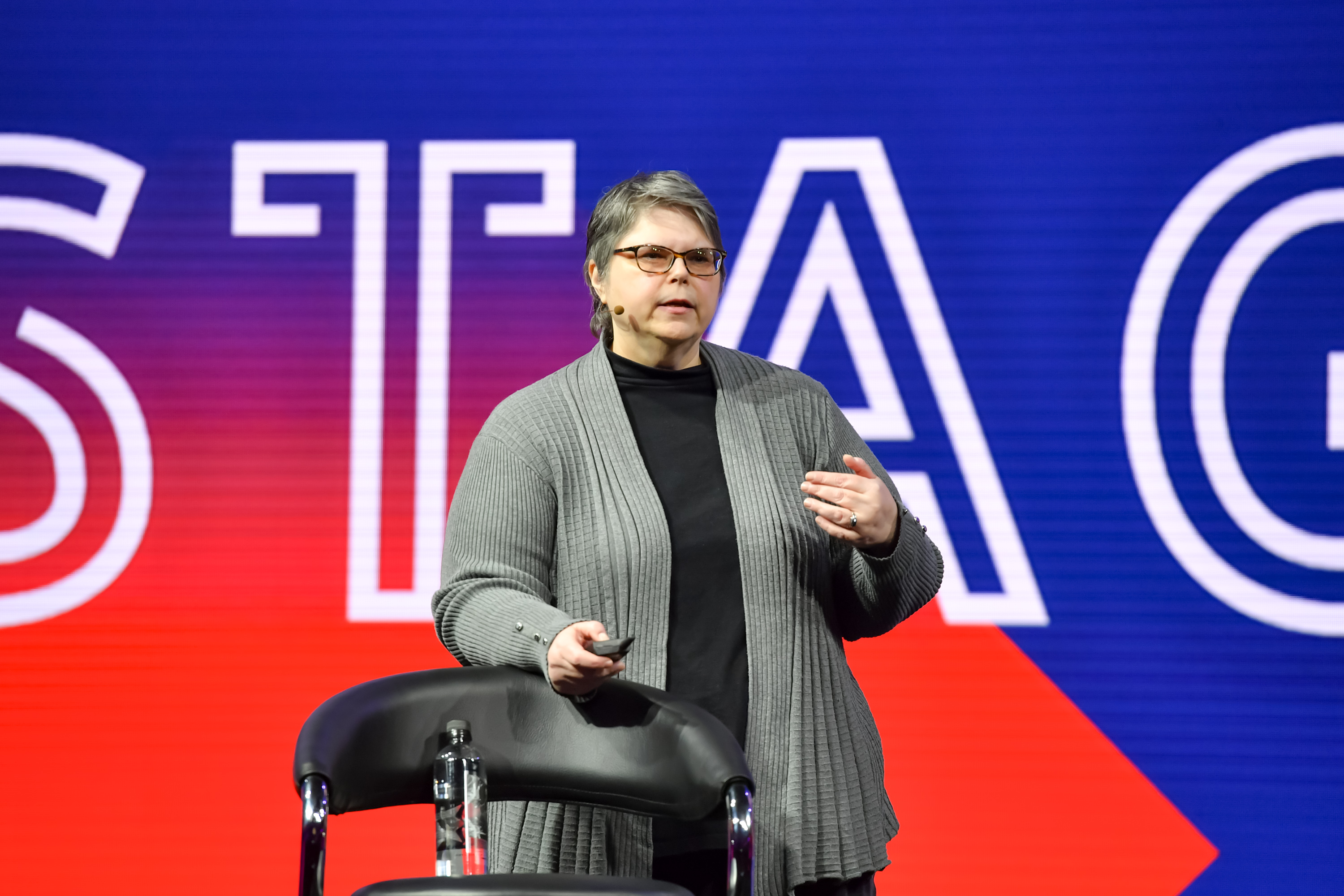 Laralyn McWilliams gives a talk on the Main Stage at the 2019 Game Developers Conference.